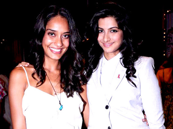 Lisa Haydon, Rhea Kapoor at Elle breast cancer carnival